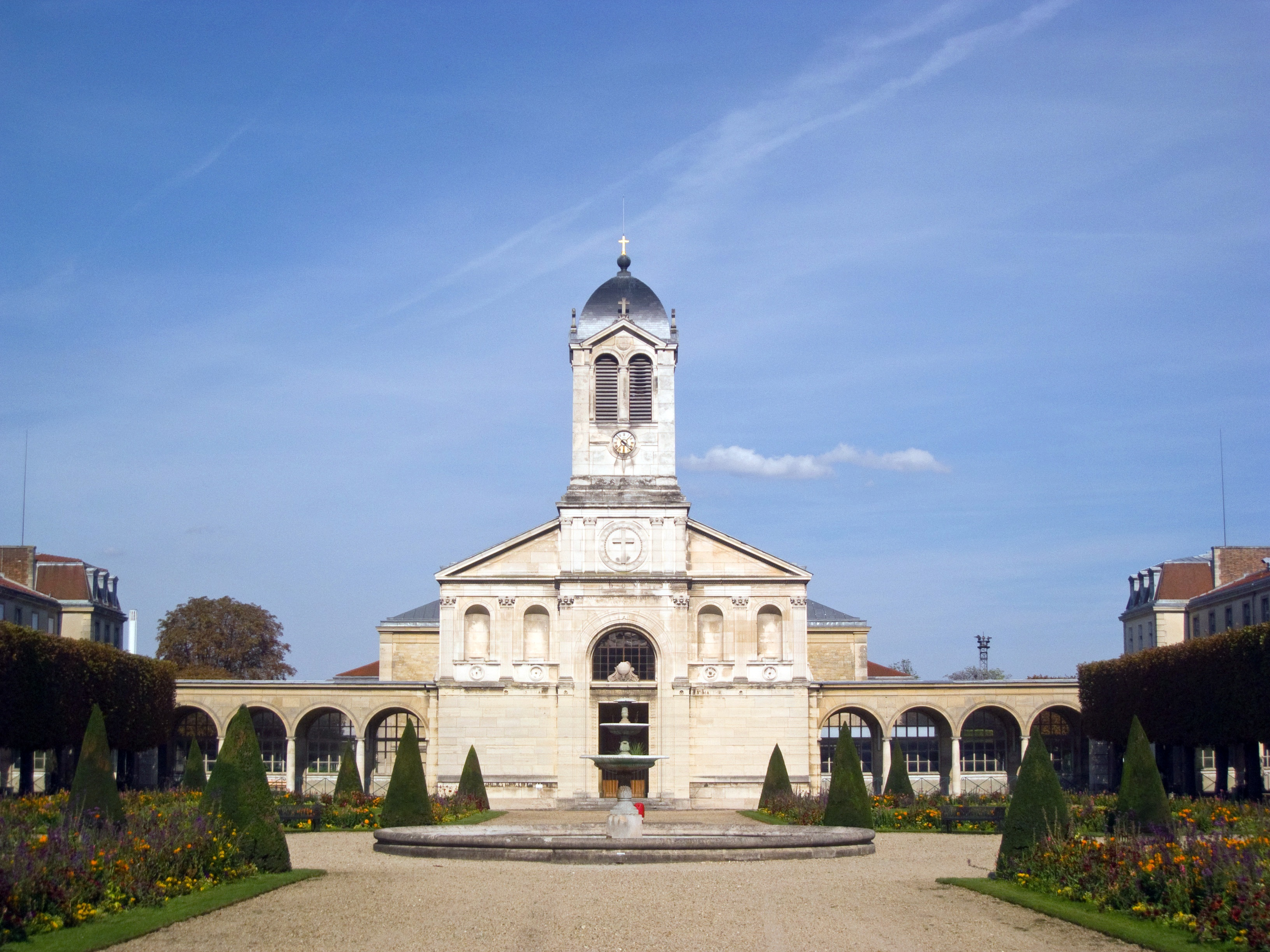 Hôpital Charles-Foix, Ivry-sur-Seine, Val-de-Marne, France. Font view of the Notre-Dame chapel from the main courtyard, its fountain being visible in the foreground.